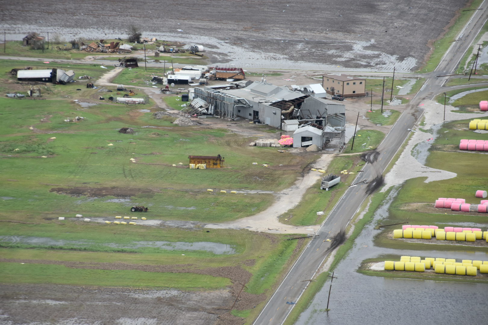 Bayside Cotton Gin in Refugio County Texas and cotton modules in the gin yard destroyed by Hurricane Harvey. Photo courtesy of Joseph Floerke used with permission.